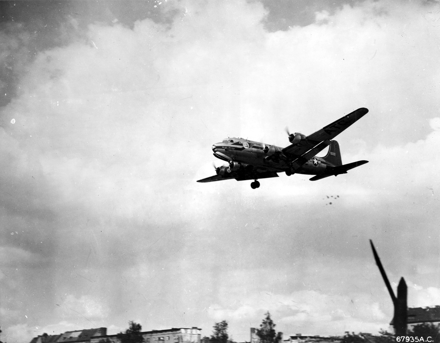 A U.S. Air Force Douglas C-54 Skymaster making a "Little Vittles" candy drop (note the parachutes below the tail of the C-54) on approach to a Berlin airfield. Aircrews dropped candy to children during the Berlin Airlift.